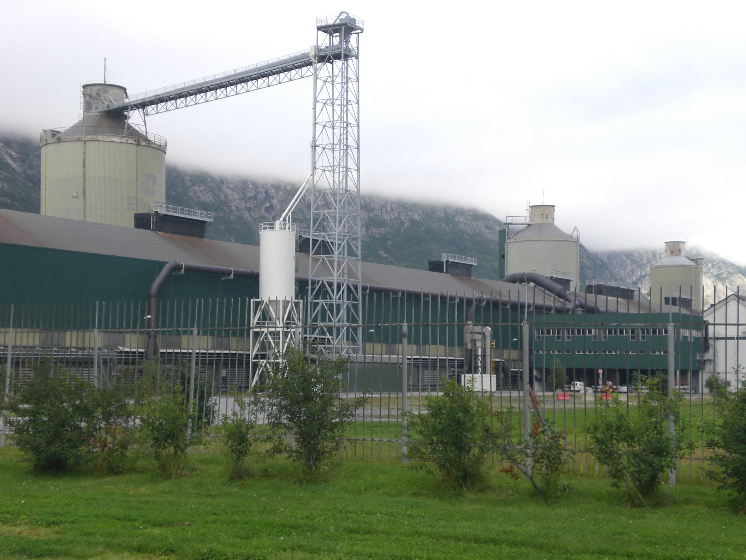 Mosjøen Aluminiumsverk/Mosjøen Aluminum Plant, Norway.